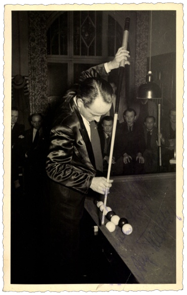 German Carom billiards player August Tiedtke making a Massé-Shot.